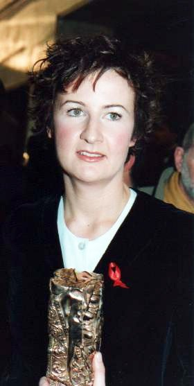 French actress Valérie Lemercier at the 19th César Awards, with her award for Best Supporting Actress for Les Visiteurs